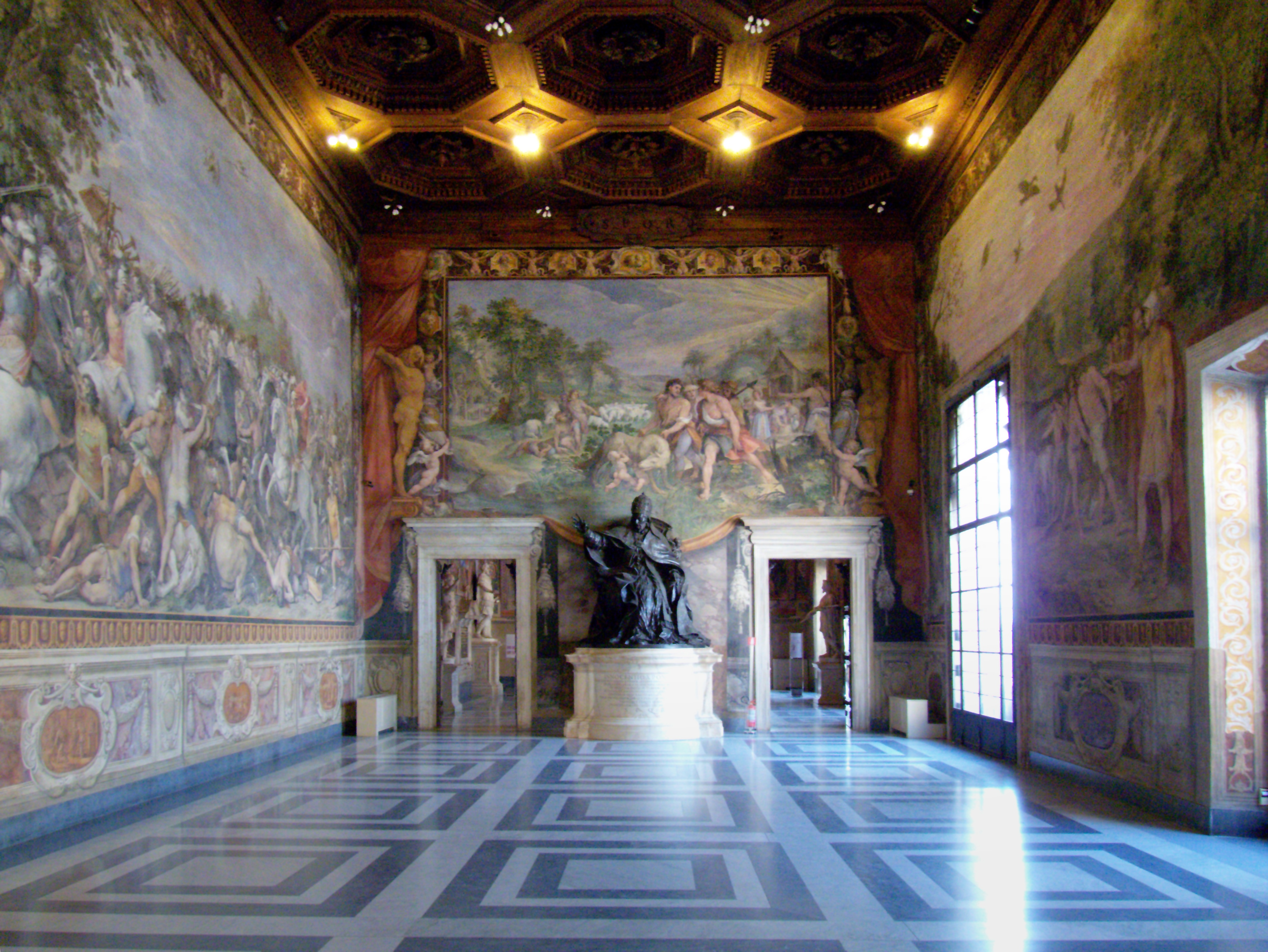 room inside the Musei Capitolini in Rome, Italy, with the statue of Pope Innocent X